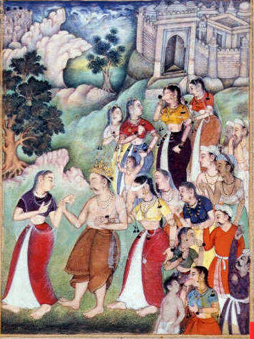 "Kunti leading Gandhari. Description: Gandhari, blindfolded, supporting Dhrtarashtra and following Kunti when Dhrtarashtra became old and infirm and retired to the forest. A miniature painting from a sixteenth century manuscript of part of the Razmnama, the Persian translation of the Hindu epic Mahabharata. Title of Work: Razmnama. Author: Naqib Khan (translator). Illustrator: Dhanu. Production: India, 1598. Language/Script: Persian."